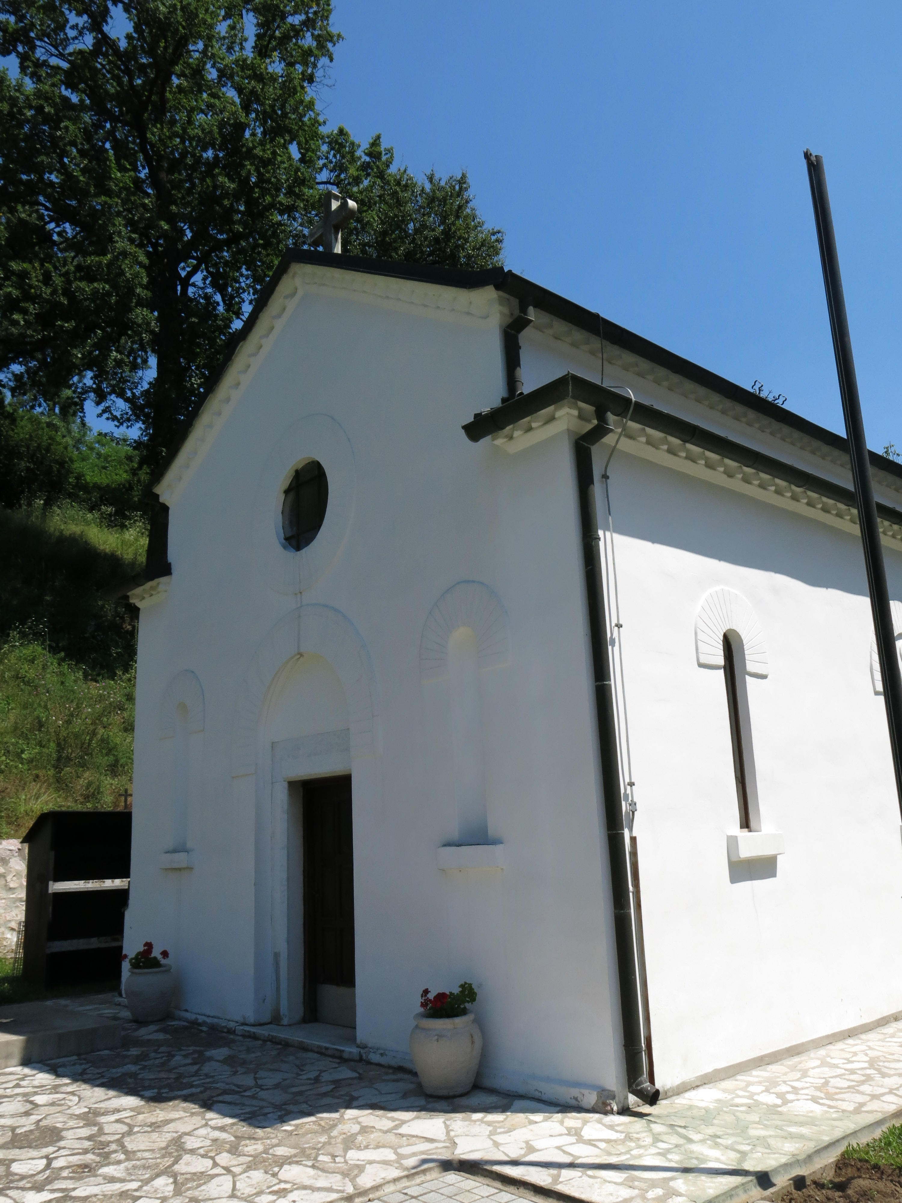 Ćelije, Church of Saint George